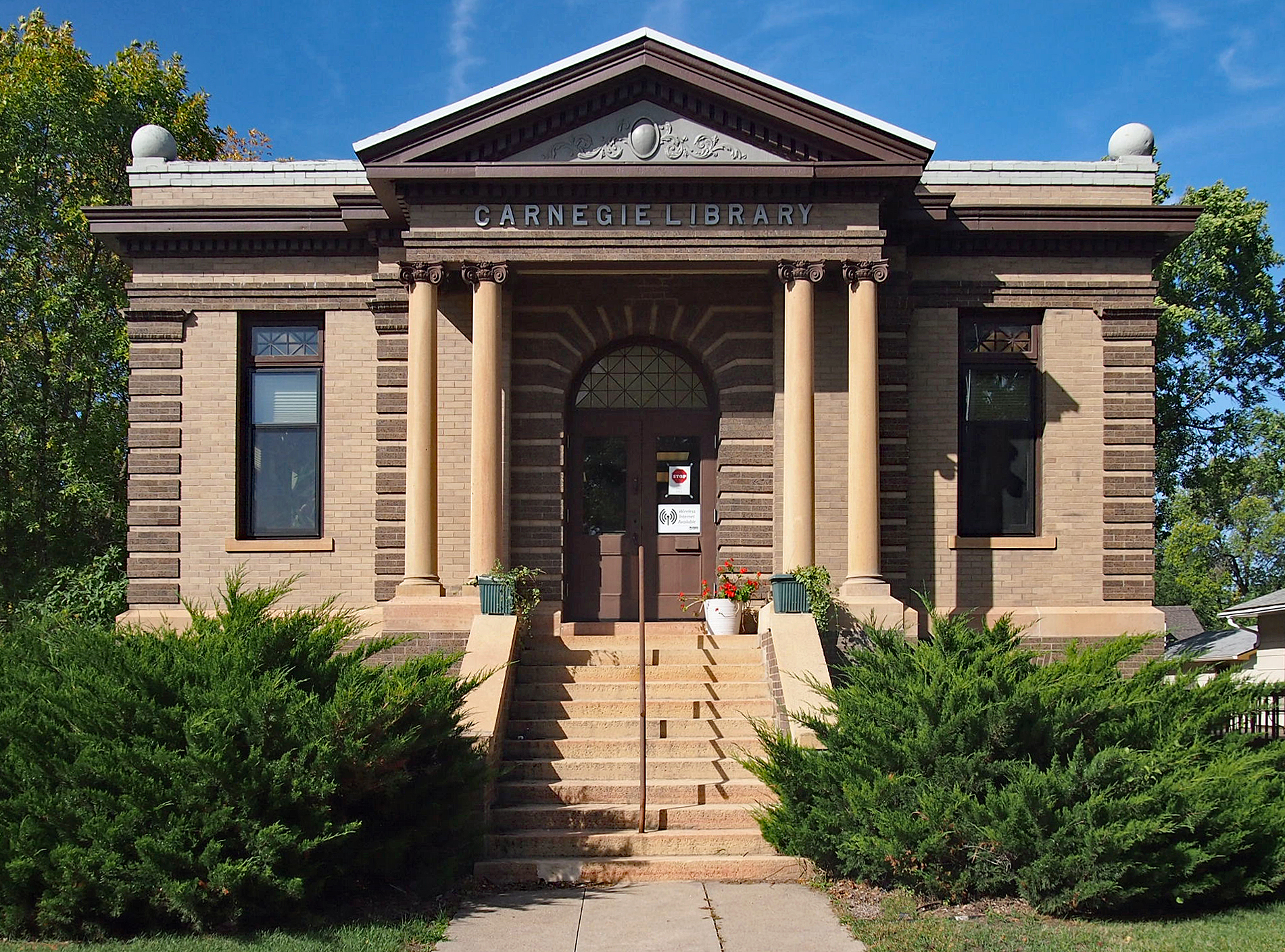 Madison Carnegie Library, 401 6th Ave, Madison, Minnesota, USA. Viewed from the east, corrected for tilt distortion.